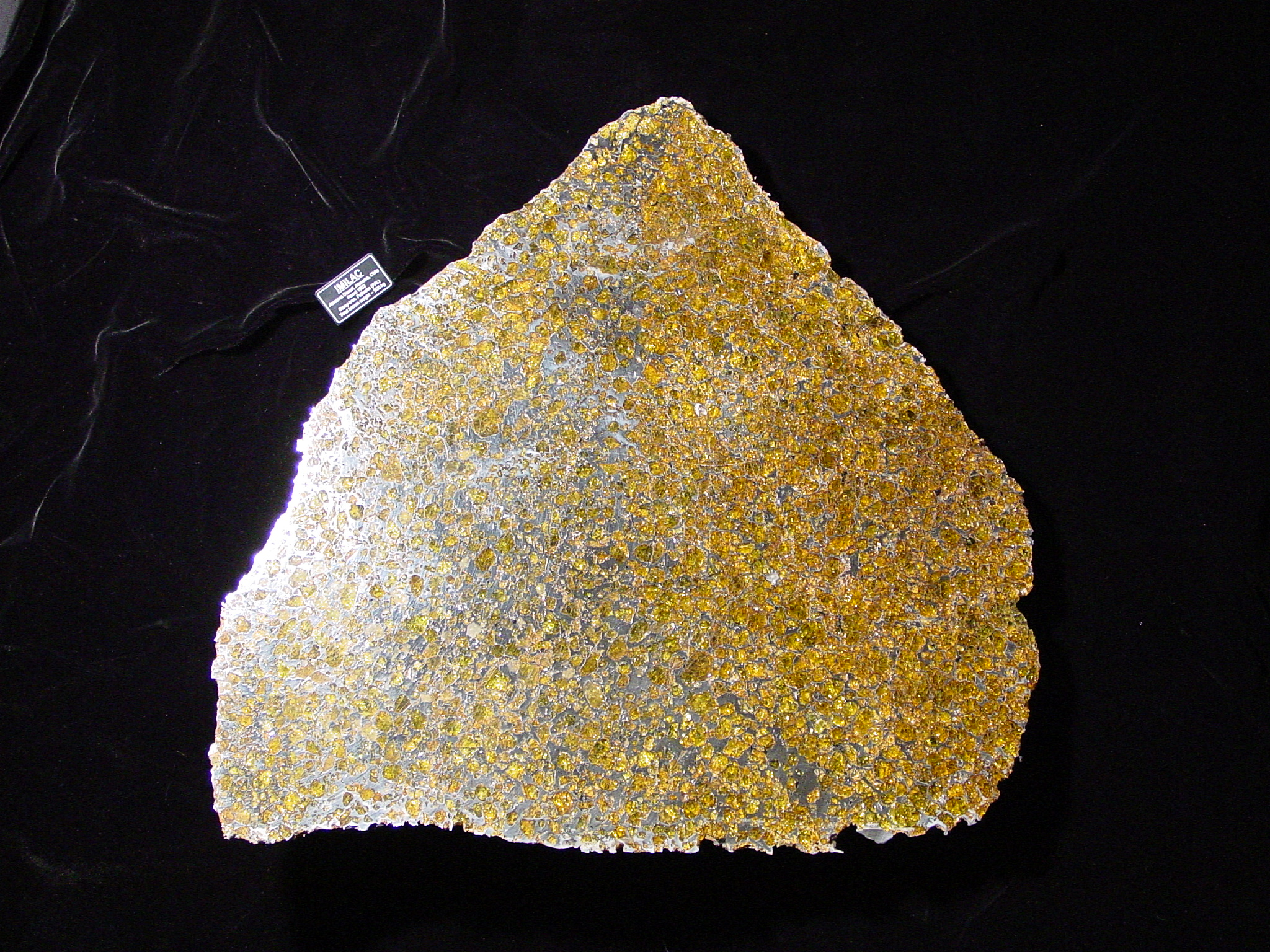 Imilac pallasite meteorite. 3747g full slice out of the British Museum of natural history's main mass. The name-plate is 44.5mm (1.75 inches) wide.